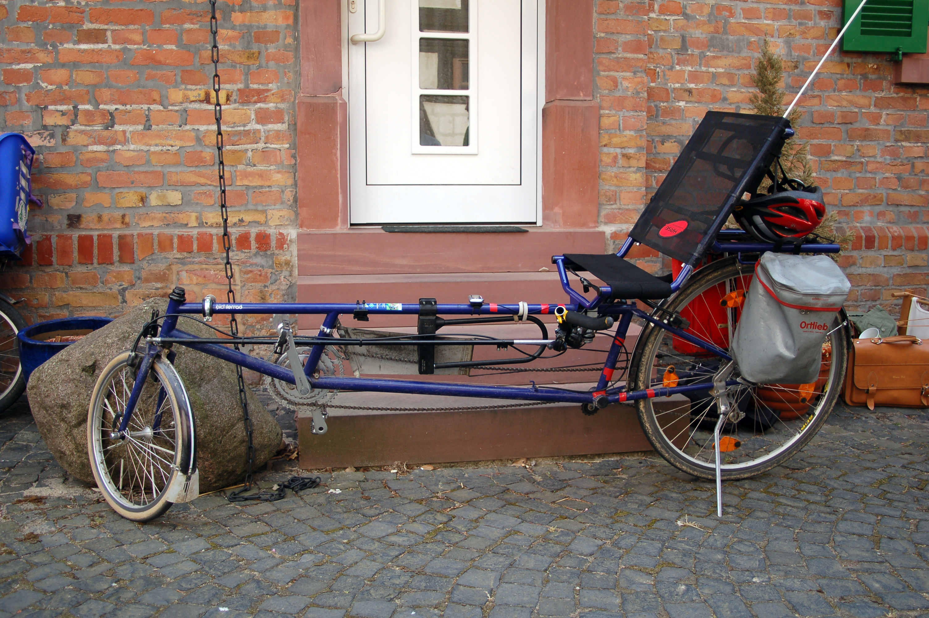 Pichler long-wheelbased recumbent